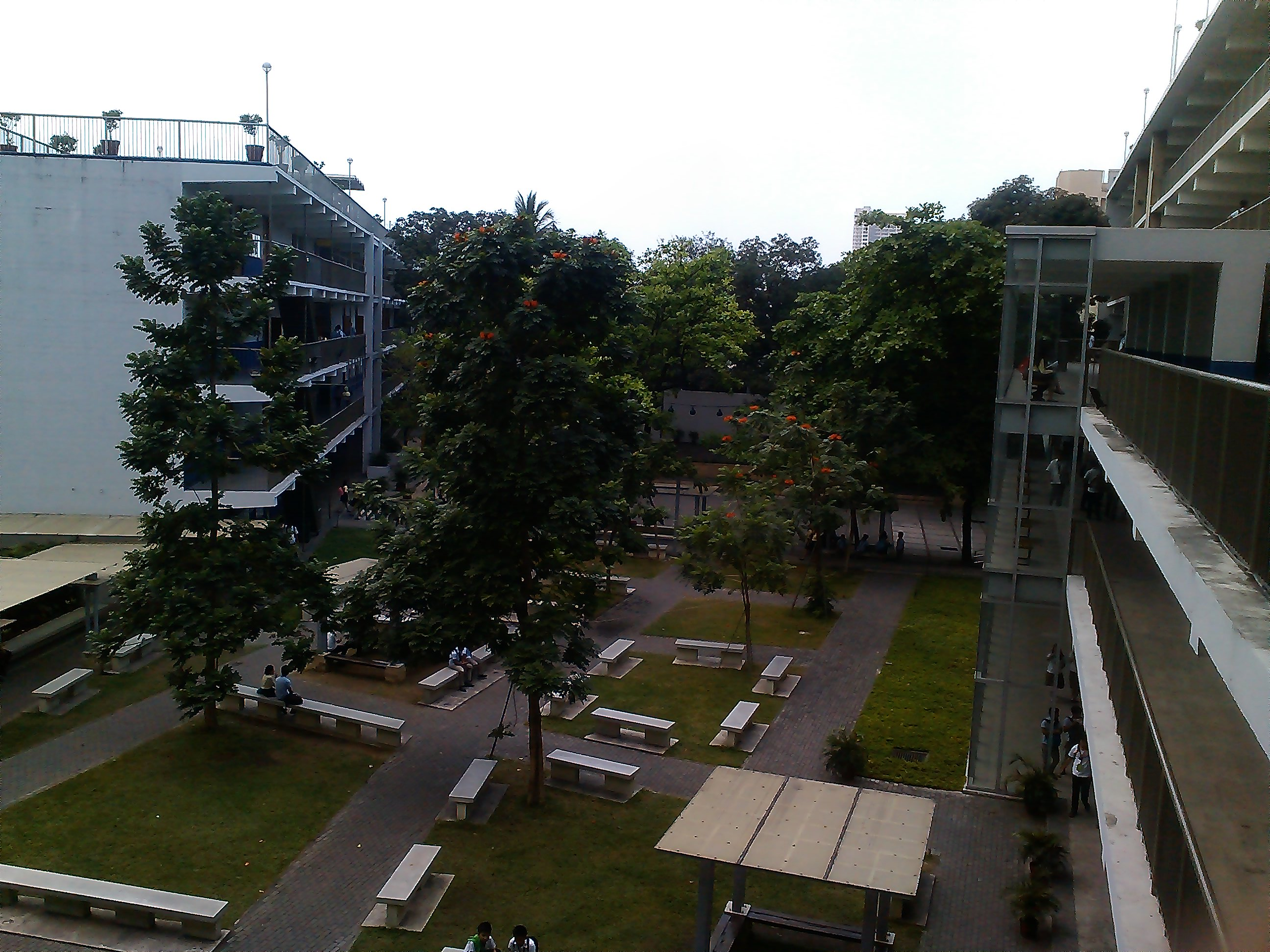 Inside the JRU Campus